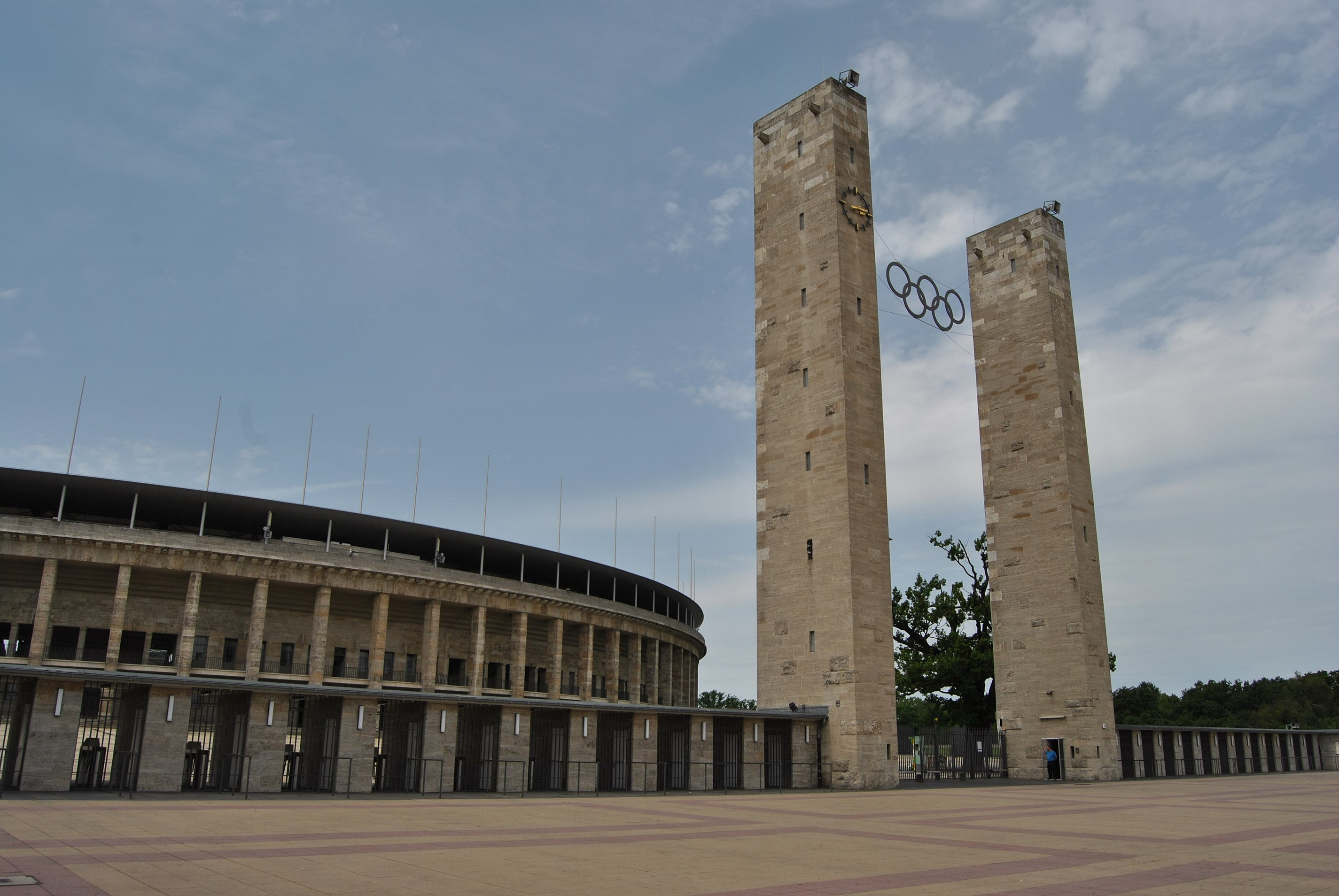 Berlin – Olympic Stadium – Olympic Gate This is a photograph of an architectural monument. This photograph was taken with a Nikon D3000